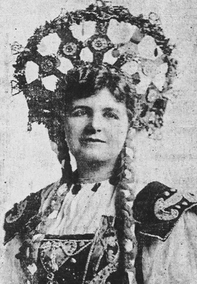 Mae Shumway Enderly in a Norwegian bridal costume, from a 1916 newspaper. A white woman wearing an elaborate headdress, long braid, and embroidered bodice.